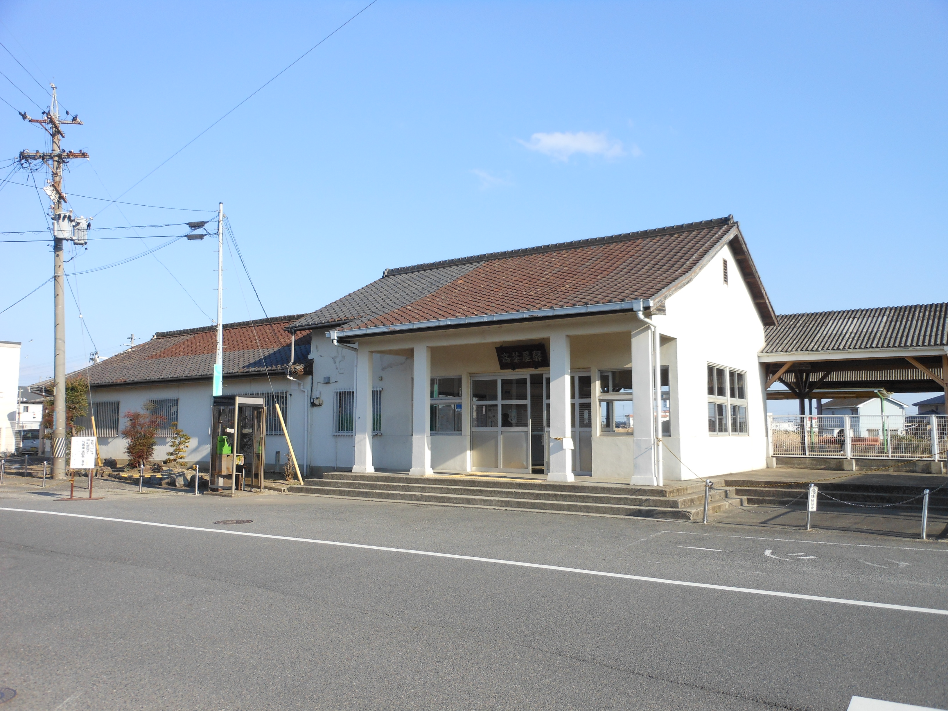 This is the JR Kisei Line Takachaya station.